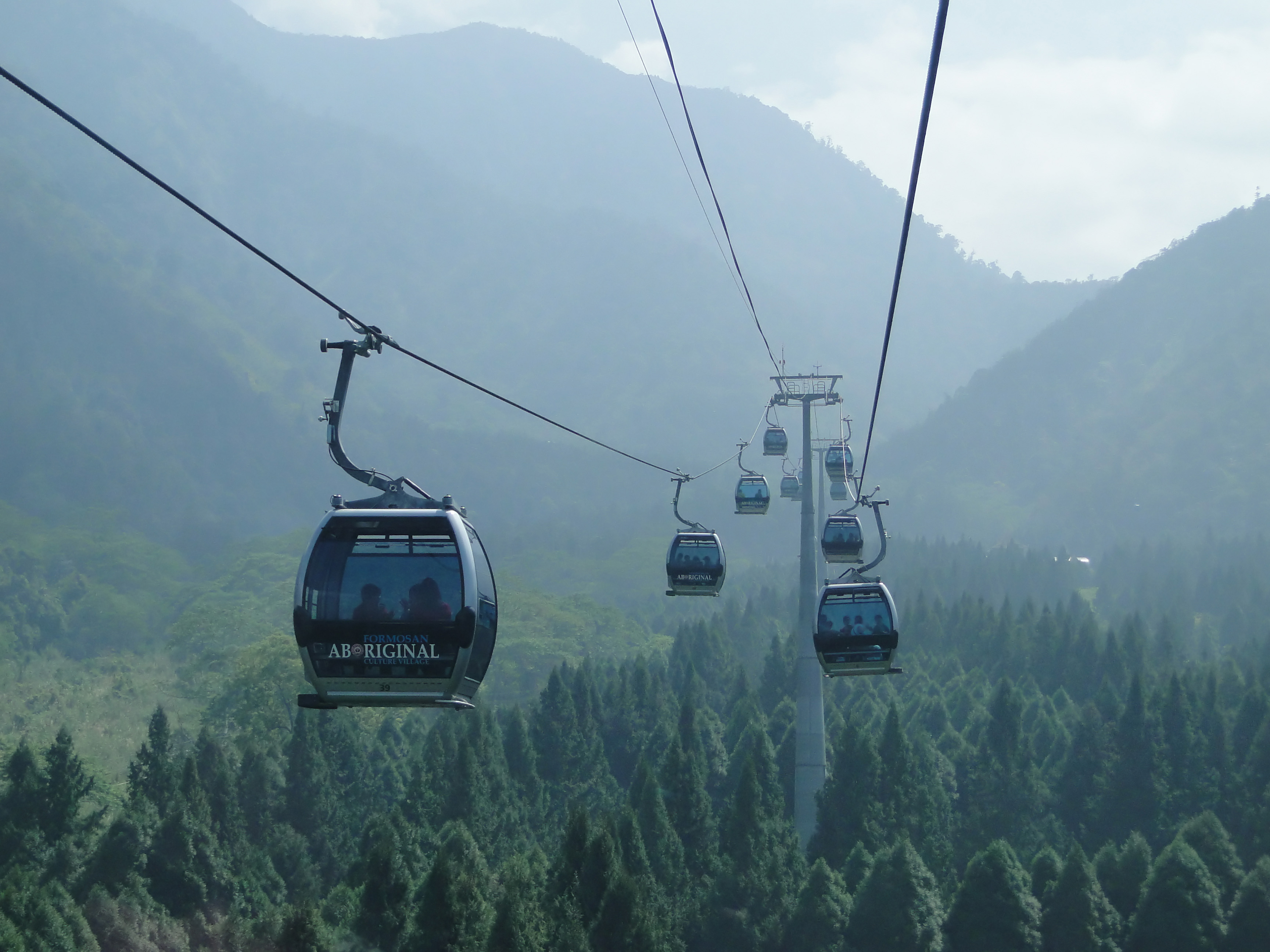 Aerial tramway in Formosan Aboriginal Culture Village, Taiwan